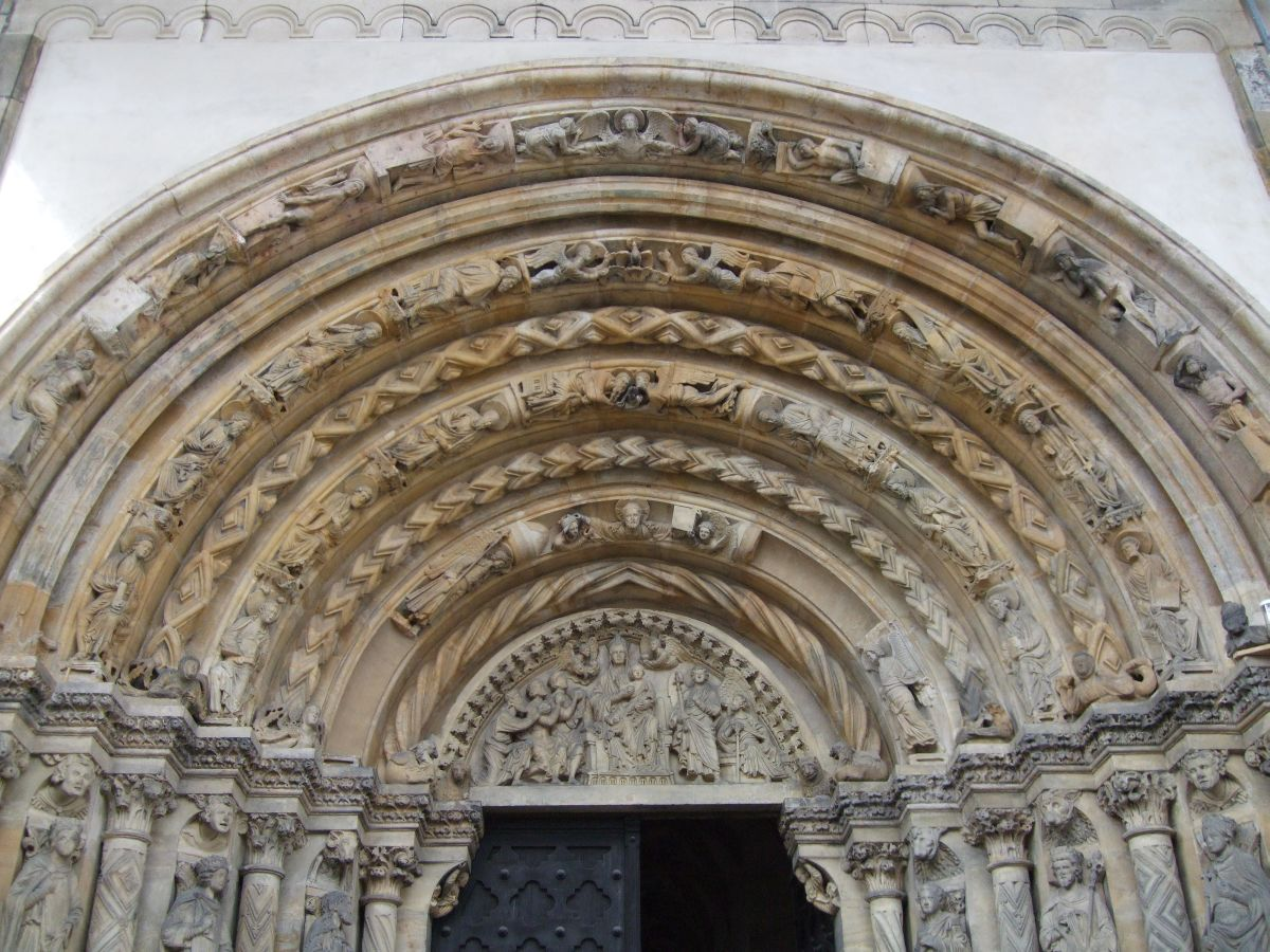 Tympanon and archivolts at the Golden Gate („Goldene Pforte“) of the cathedral St. Marien at Freiberg (Saxony, Germany)